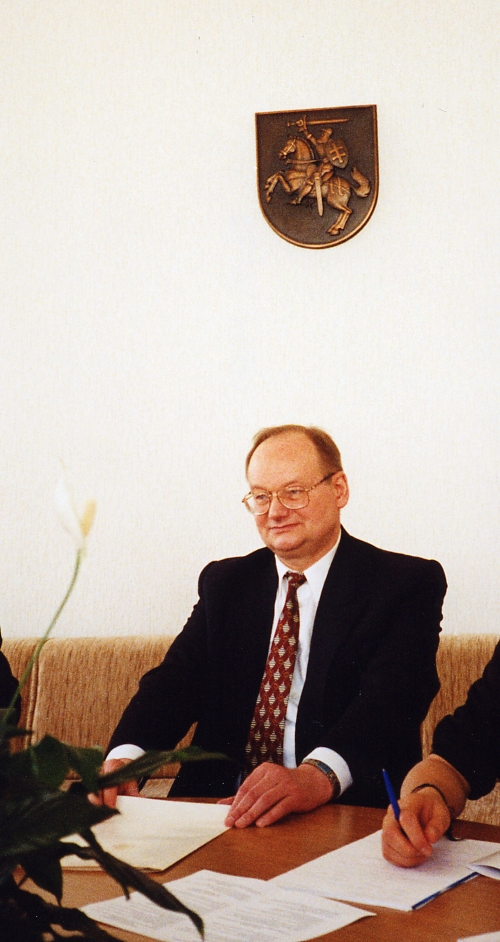 Photo of Česlovas Juršėnas by Soman